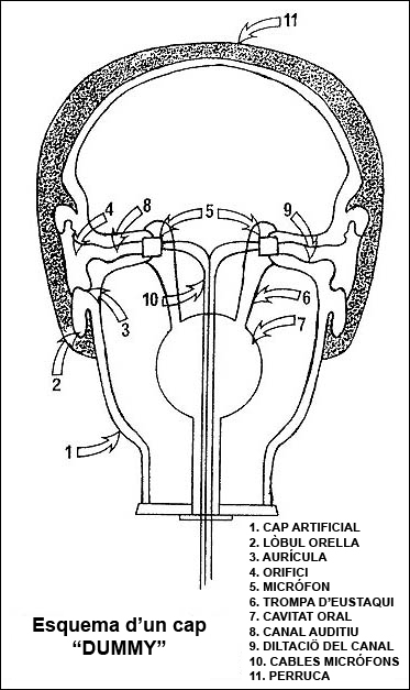 Ringo